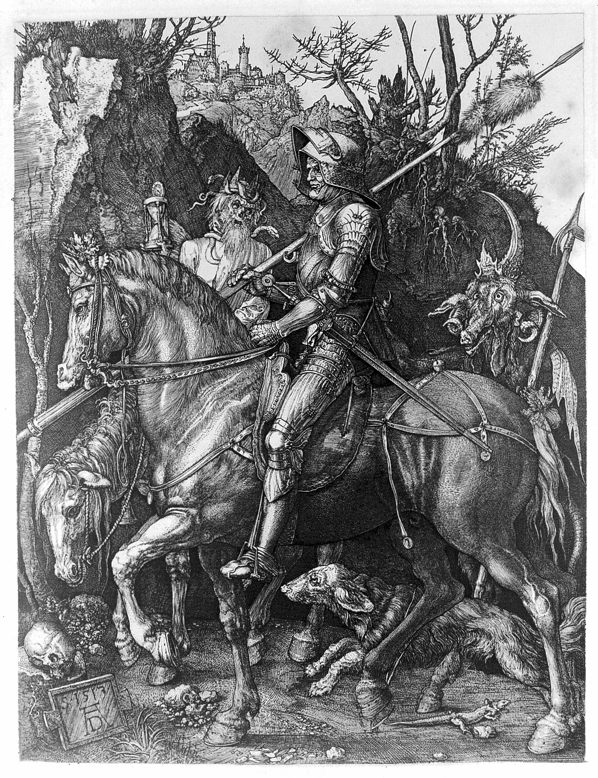 The Knight, Death and the Devil Iconographic Collections Keywords: Albrecht Durer